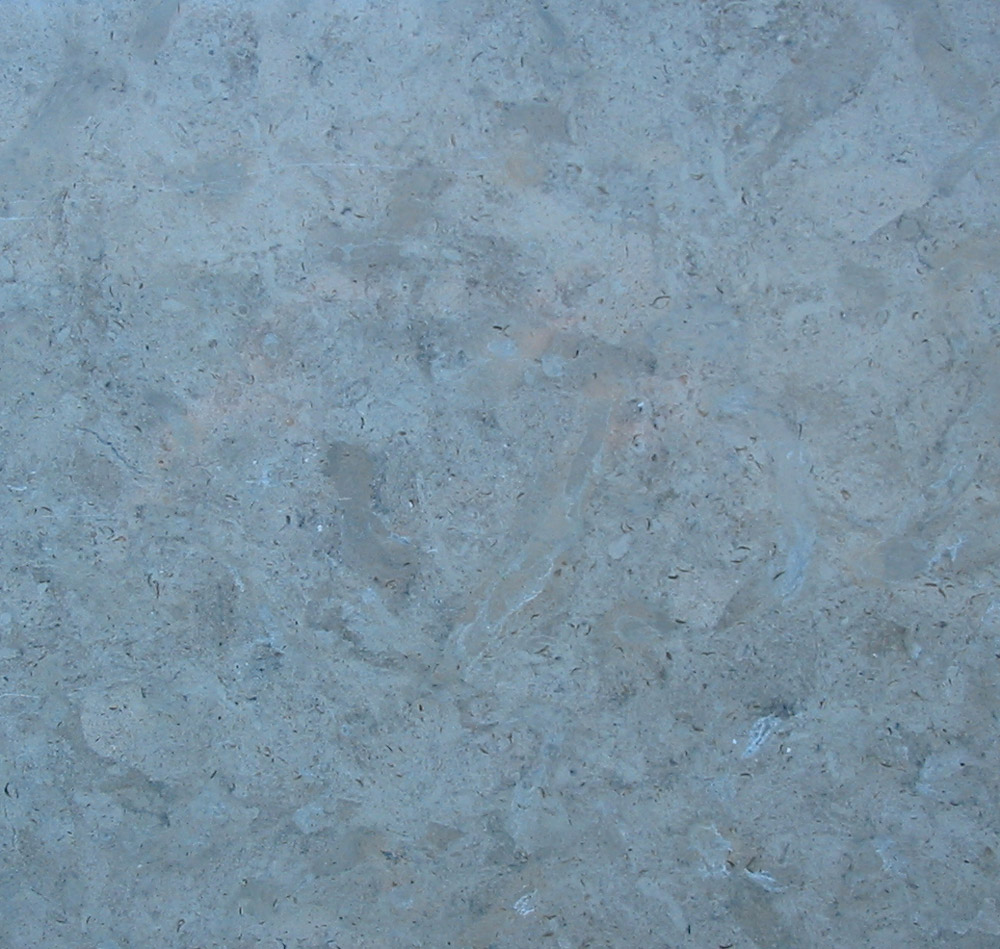 Lasnamägi building limestone (in estonian Lasnamäe ehituslubjakivi) from Estonia, Ordovician system, Lasnamäe stage